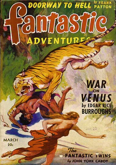 Cover of Fantastic Adventures, March 1942